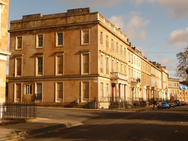 Glasgow: Woodside Terrace Elegant town houses facing a private linear park. Lynedoch Terrace is the road to the left.